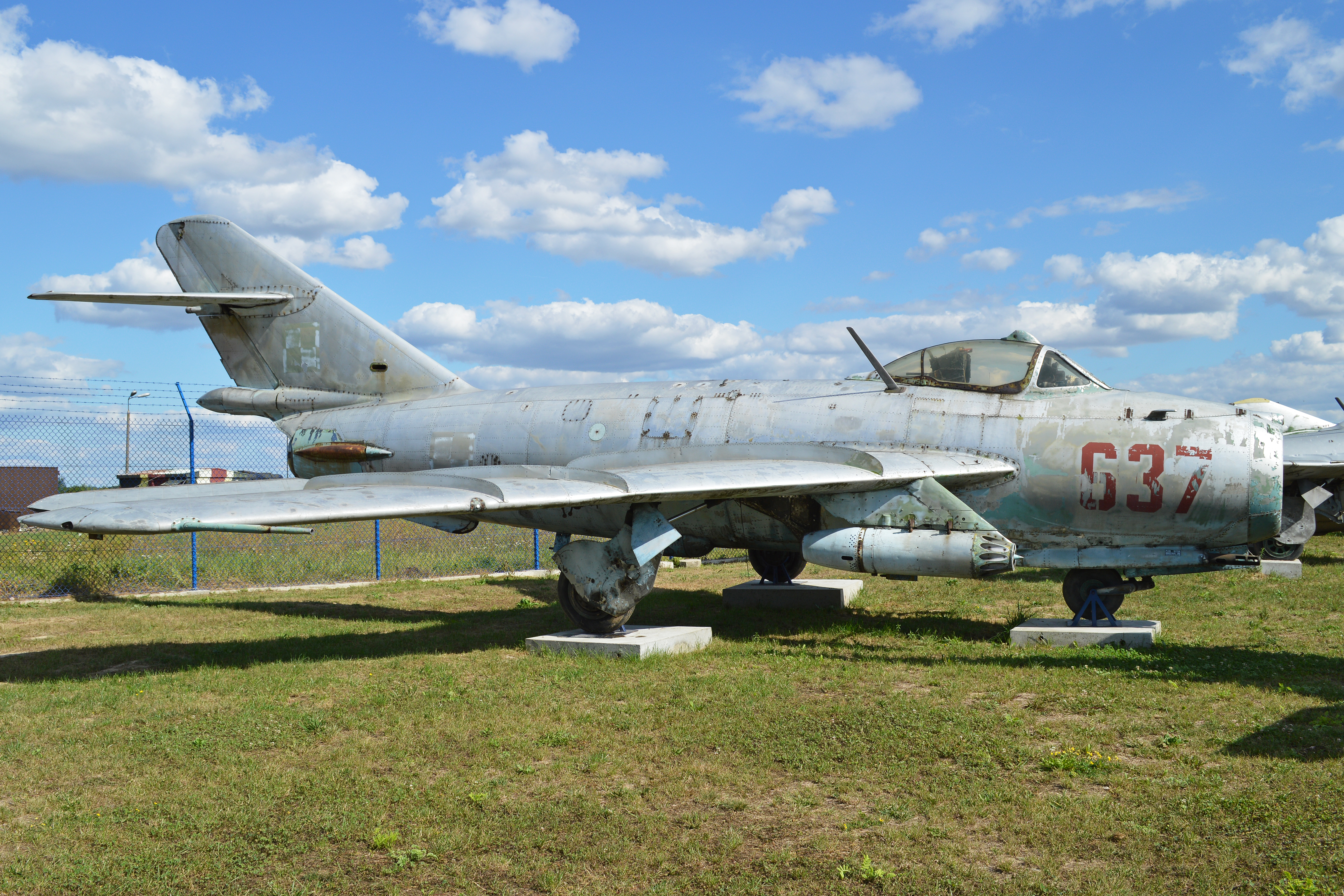 The Lim-6R was a reconnaissance version of the Lim-6, a Polish built ground attack version of the MiG-17. c/n 1J-0637. Stored at the back of the main display area at the Muzeum Sit Powietrznych. Deblin, Poland. 25-8-2013